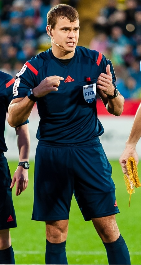 Kirill Levnikov refereeing the game between FC Rostov and FC Lokomotiv Moscow on 6 May 2016.